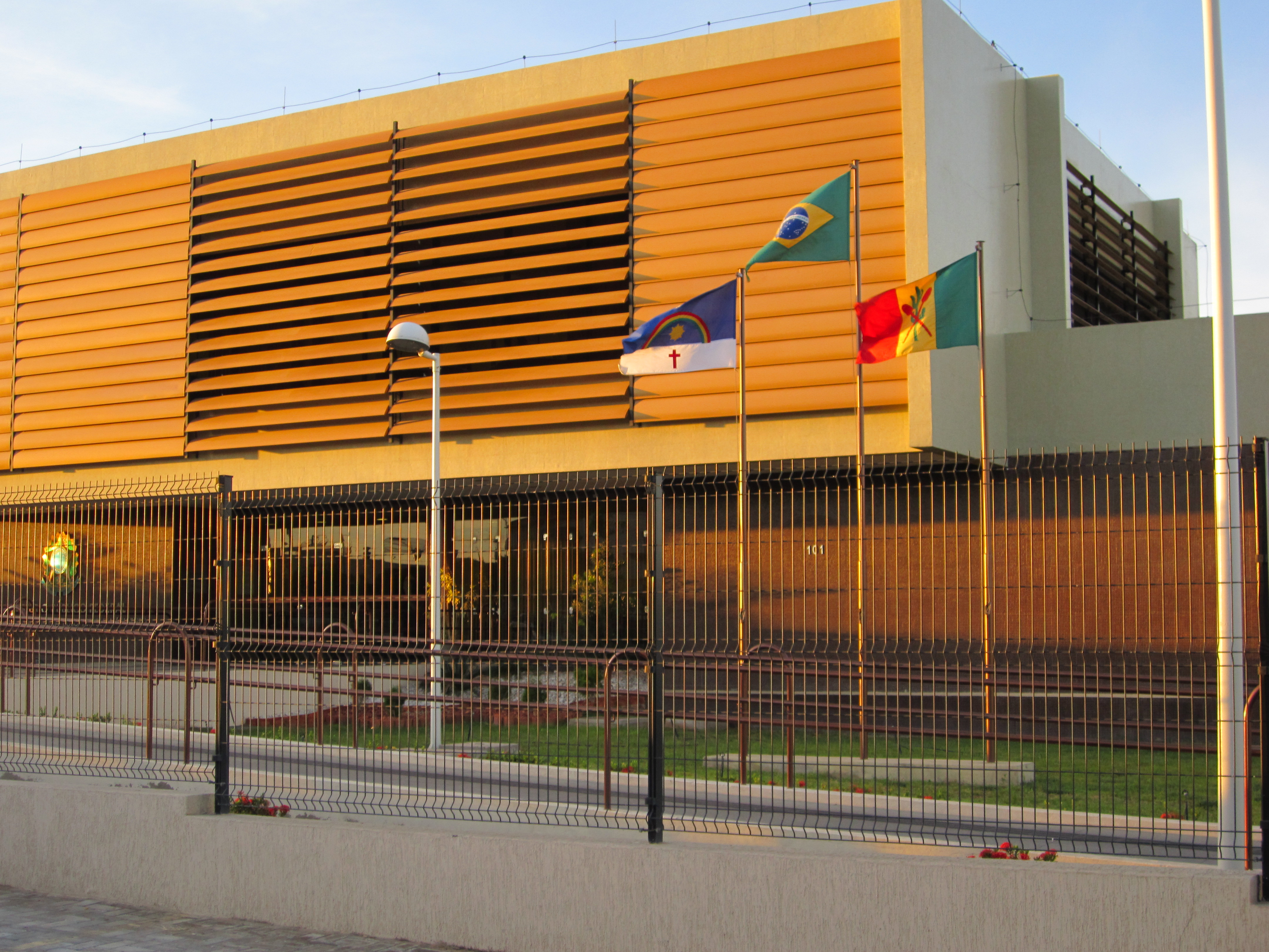 Procuradoria da República Polo Petrolina-Juazeiro - Petrolina, Pernambuco, Brasil